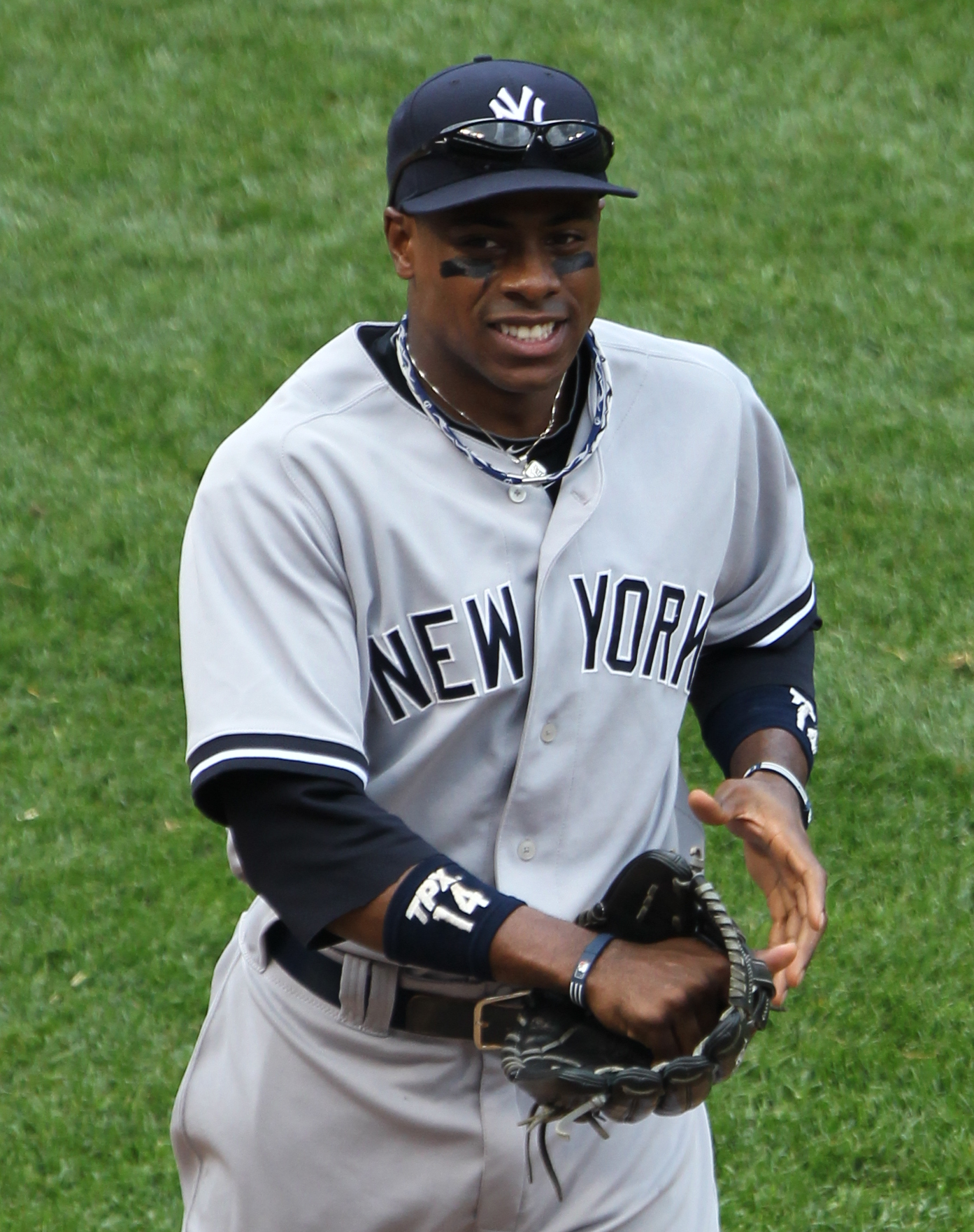 Curtis Granderson